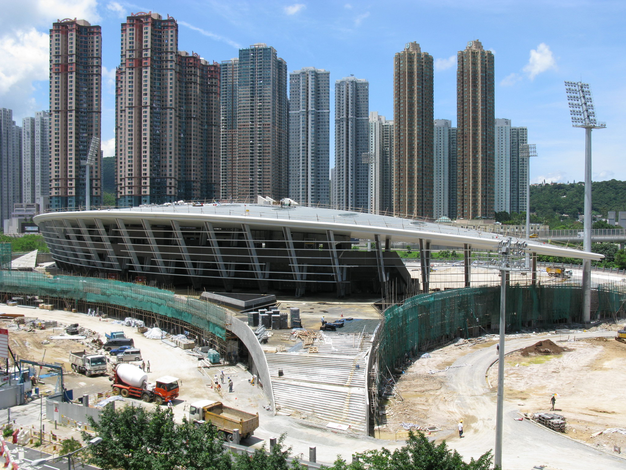 Tseung Kwan O Sports Ground under construction